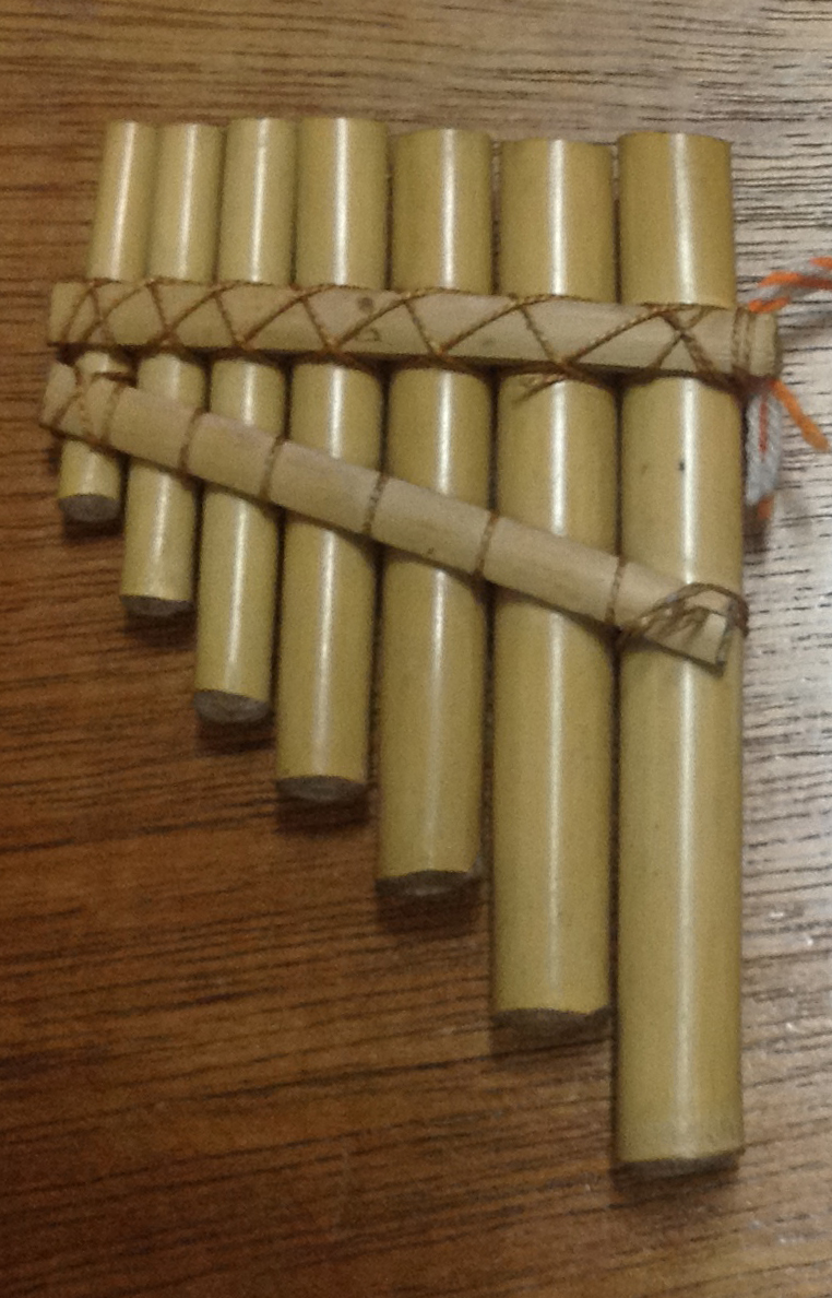 This is a Diwas of UP Center of Ethnomusicology